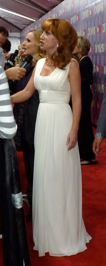 Kathy Griffin on the Red Carpet at Vh1 Divas 2009.